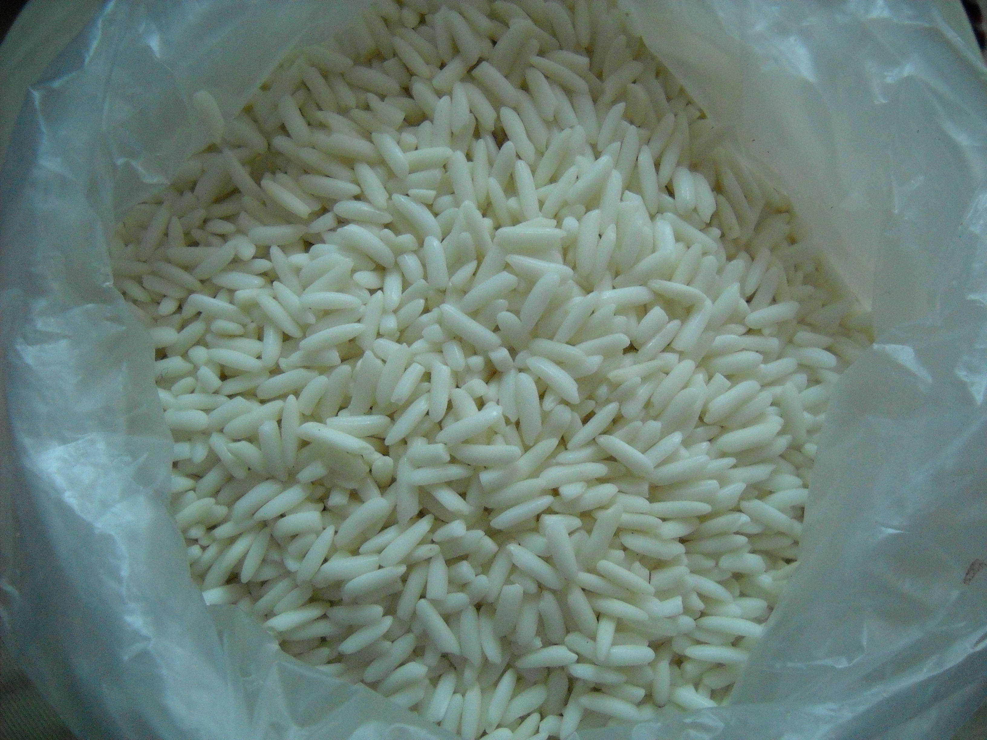 Glutinous rice (Oryza glutinosa) of IndonesiaBahasa Indonesia: Beras ketan